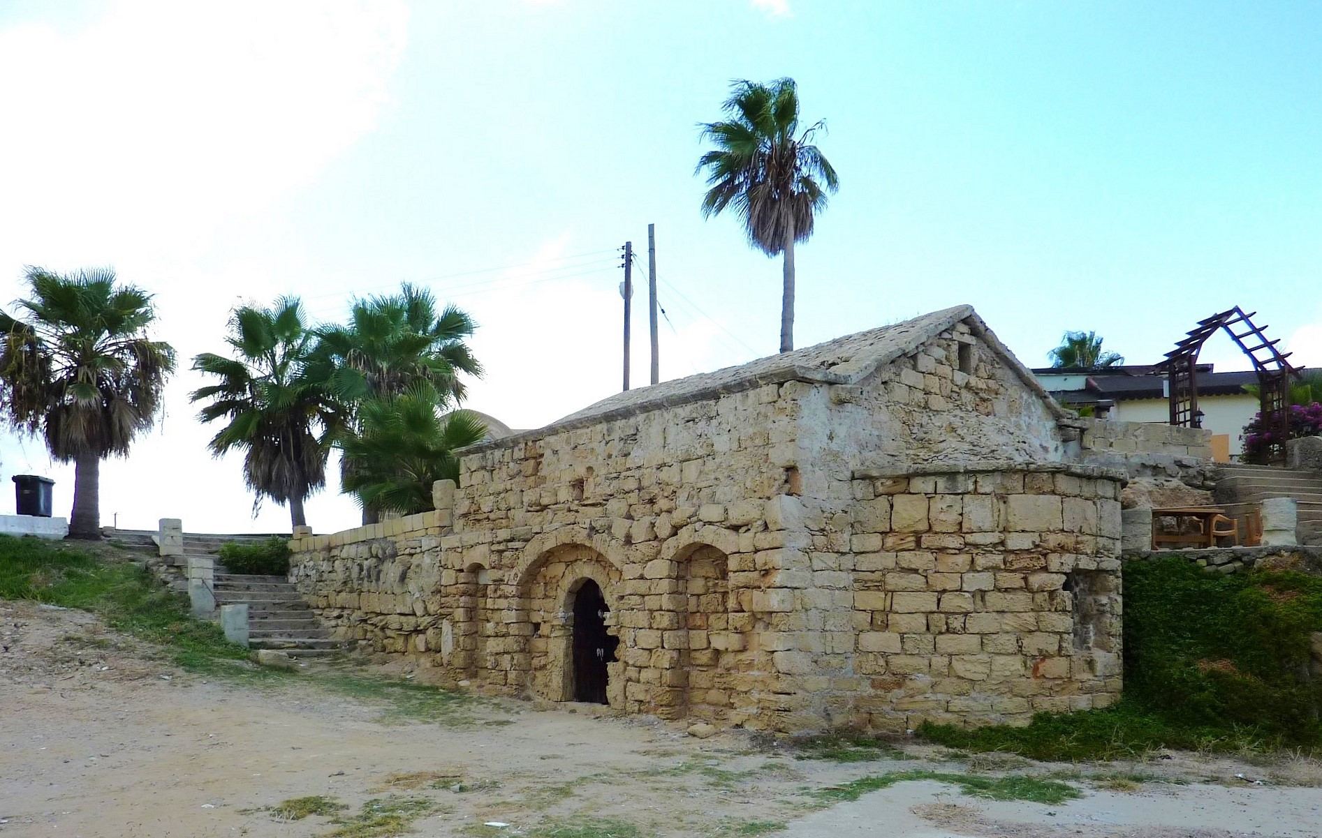 Byzantine Chapel (Agios Therisos - Old), Karpaz